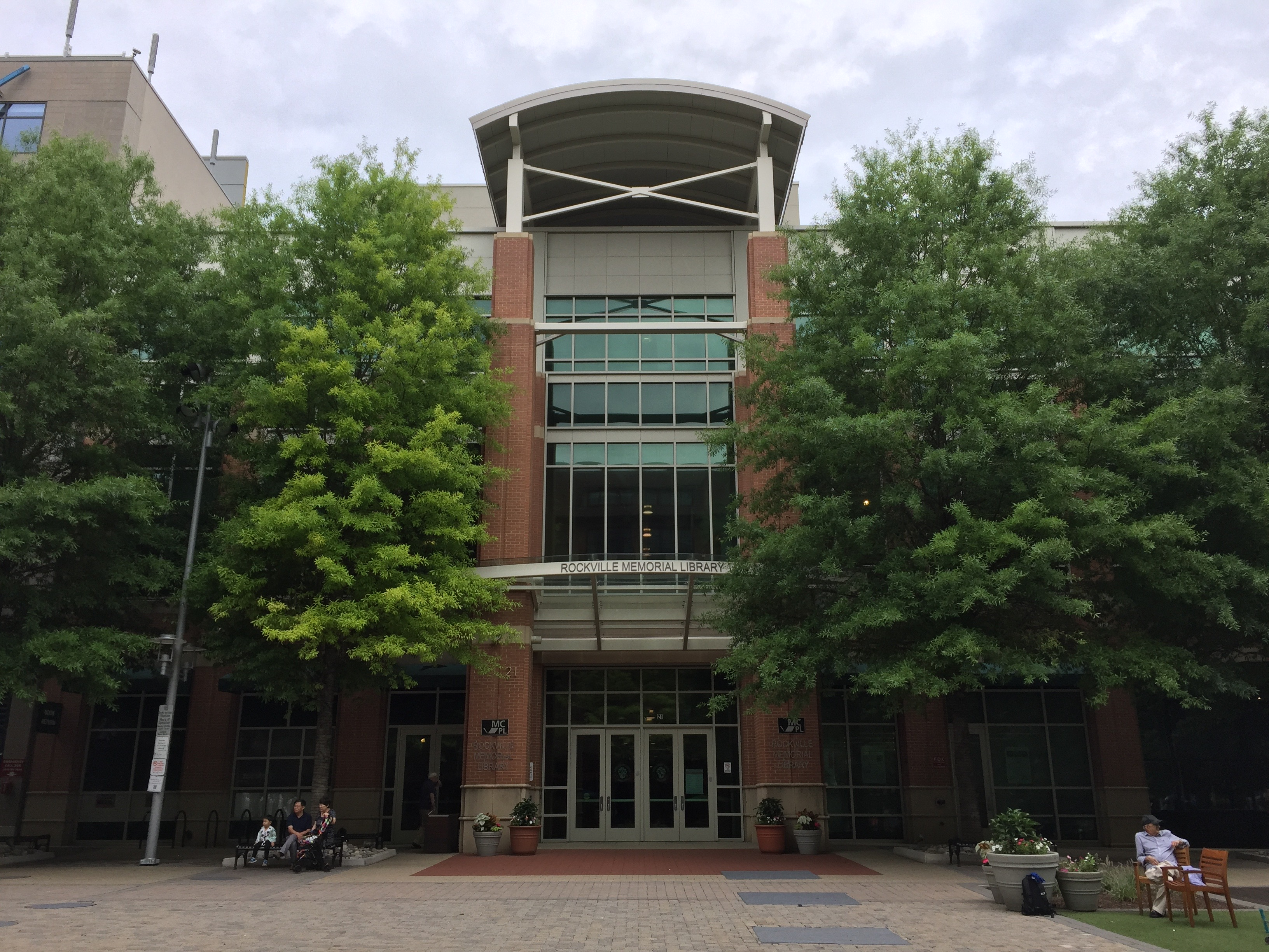 Rockville Memorial Library, part of Montgomery County Public Libraries, in Rockville, Maryland in 2018